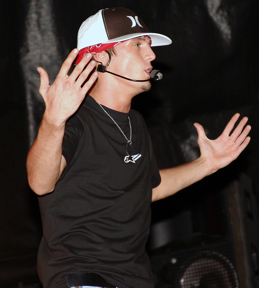 Aaron Carter in concert on June 25, 2005 in Baton Rouge, Louisiana.